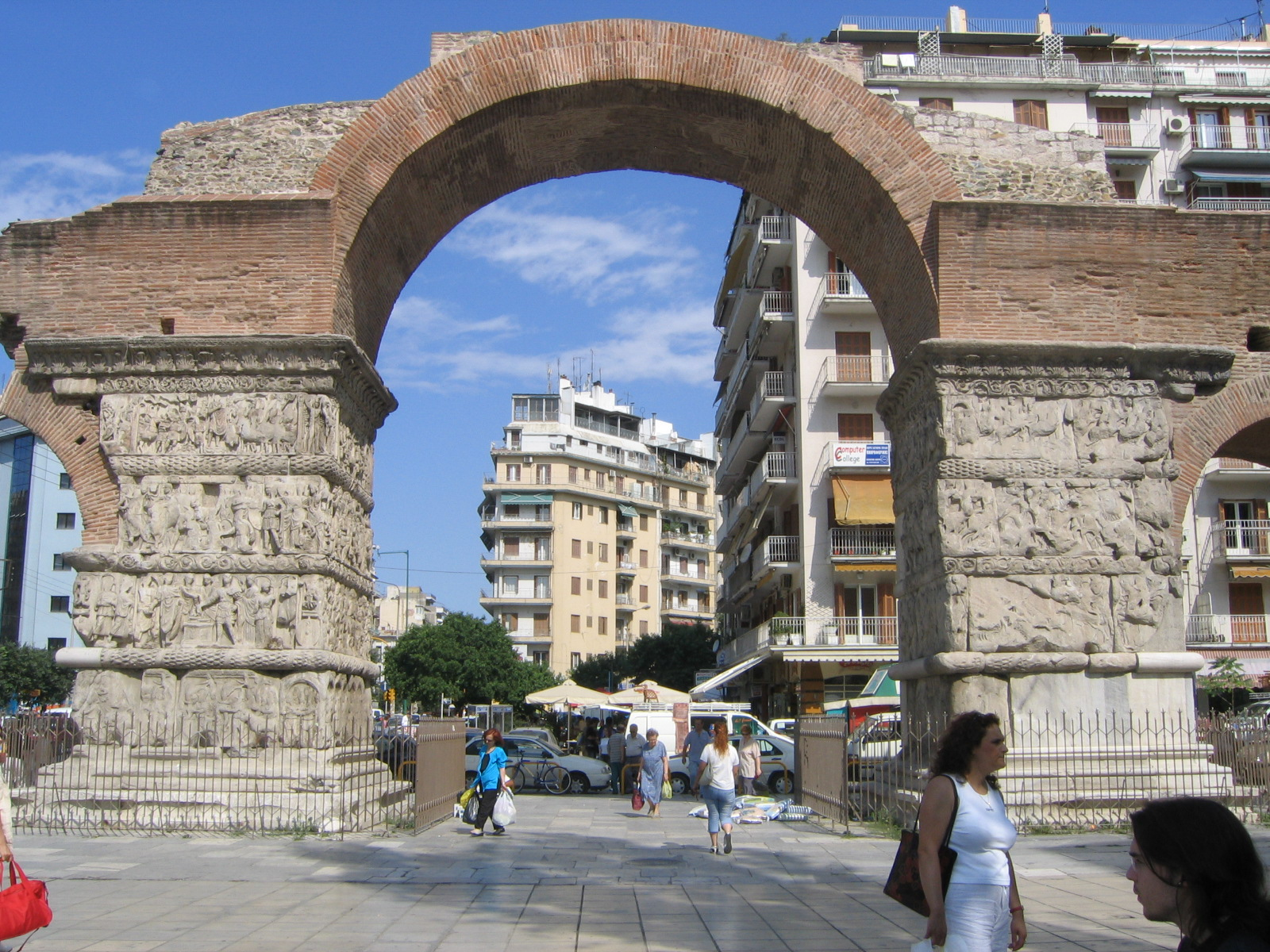 The Arch of Galerius in Thessaloniki, Greece, seen from the east.